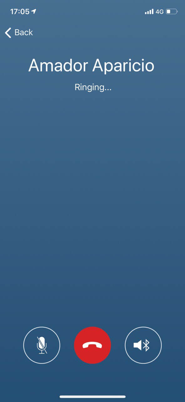 Telegram audio call interface. The background is blue or the user's profile photo.